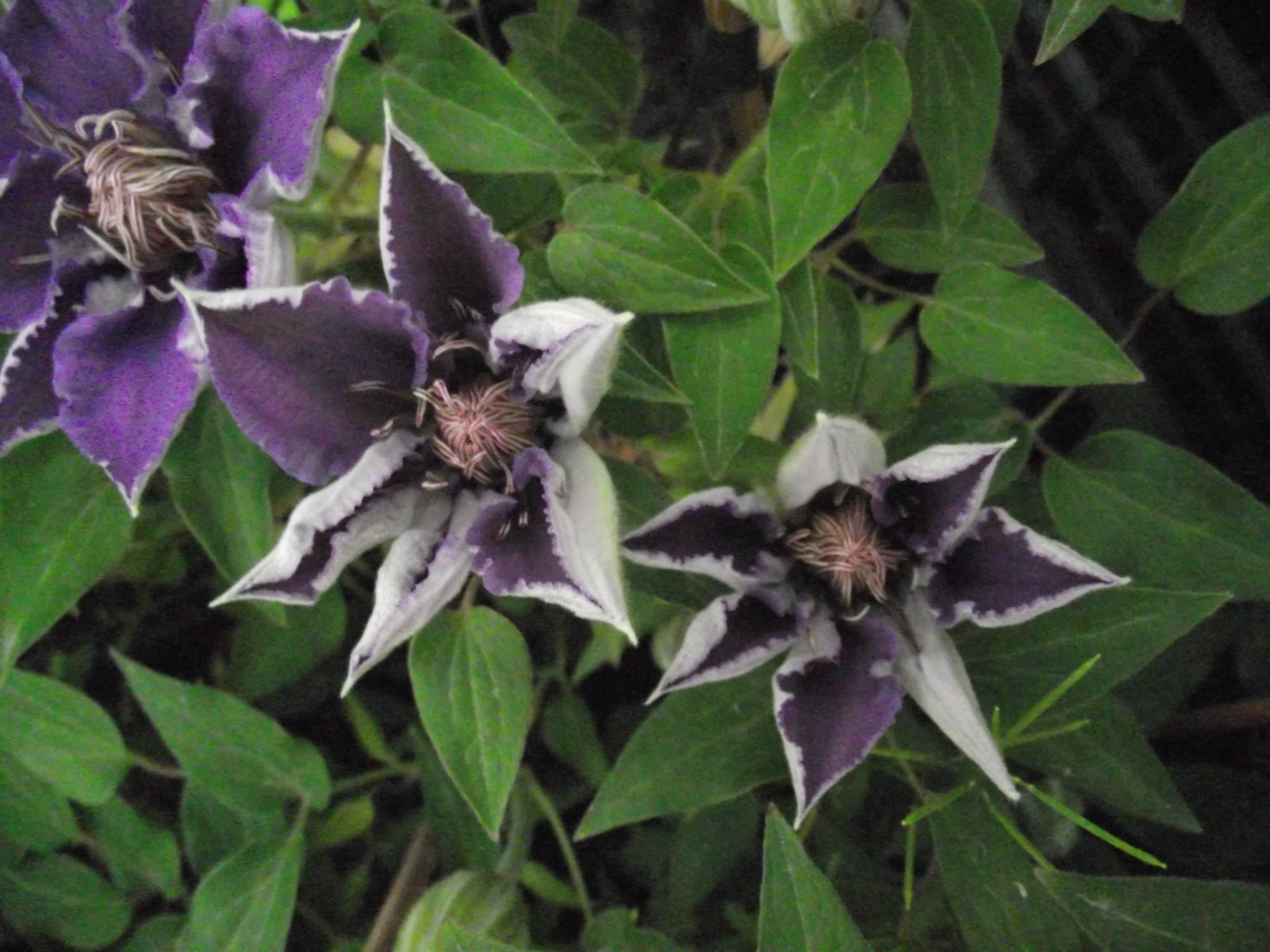 Clematis patens Bijou 'Evipo030'